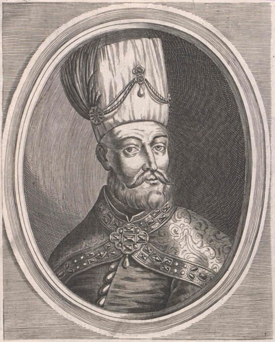 Prince Ivan Andreyevich Khovansky (Taratui)